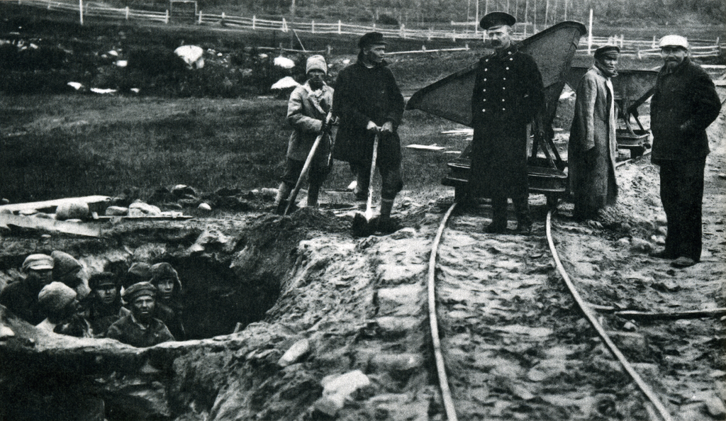 Prisoners digging clay for the brickyard. Solovki Island.